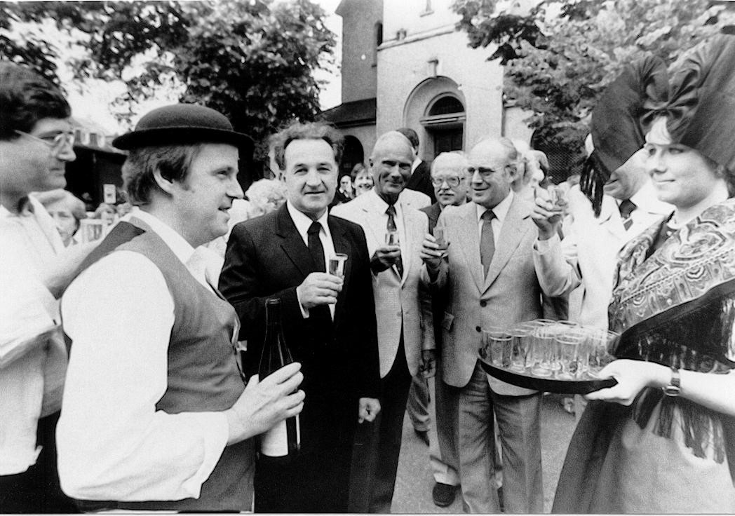 Photograph of Franz Kern, Eugen Keidel and Heinz Eyrich at the Herdermer Hock in 1979